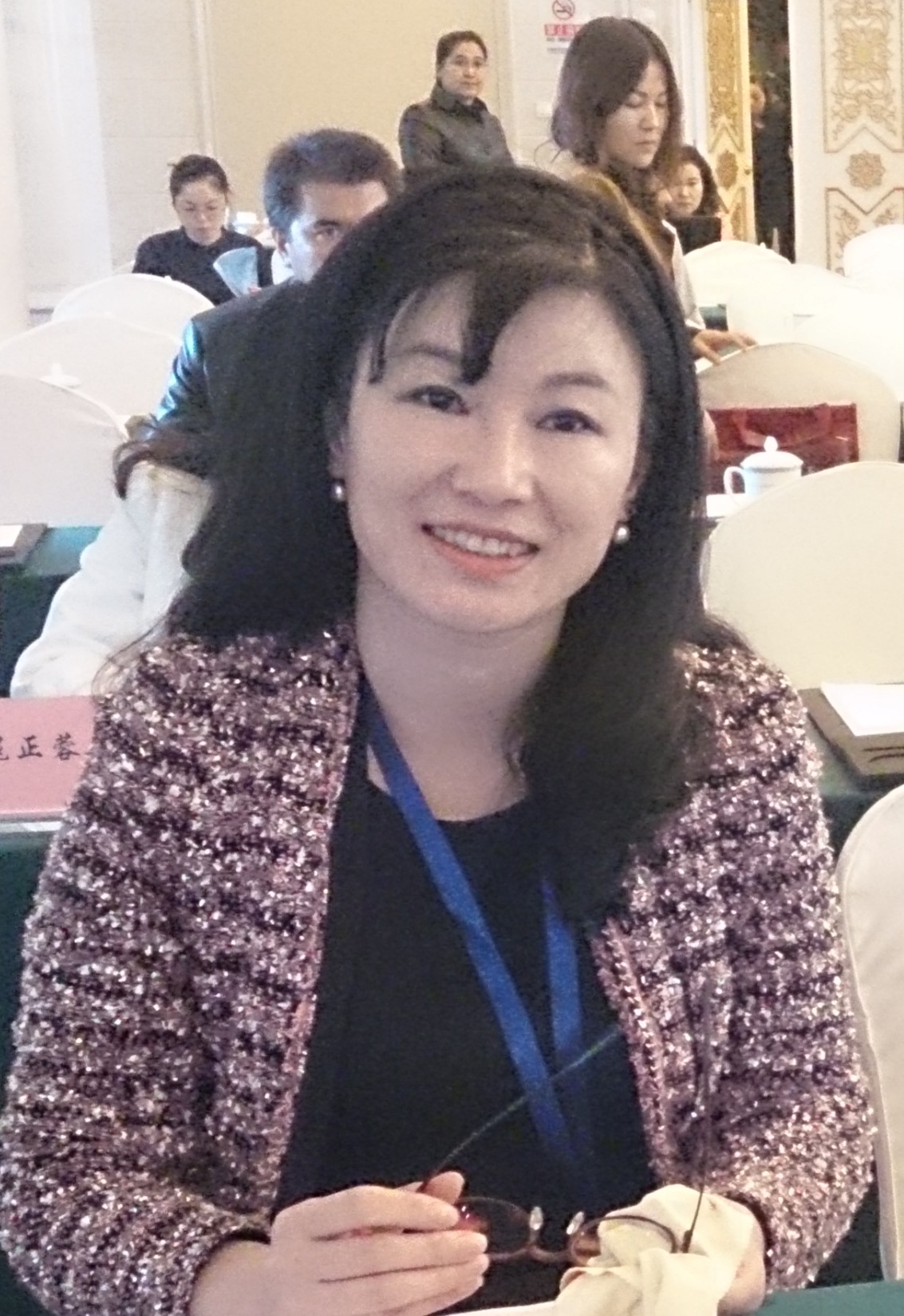 Prof. Eunkyung Oh, Professor at Dongduk Women's University, Seoul, Korea, and Consultant for Asia-Pacific Intangible Cultural Heritage Center of UNESCO, during a scientific conference in Beijing, China. 19 October 2015. Photo by T.Chorotegin.